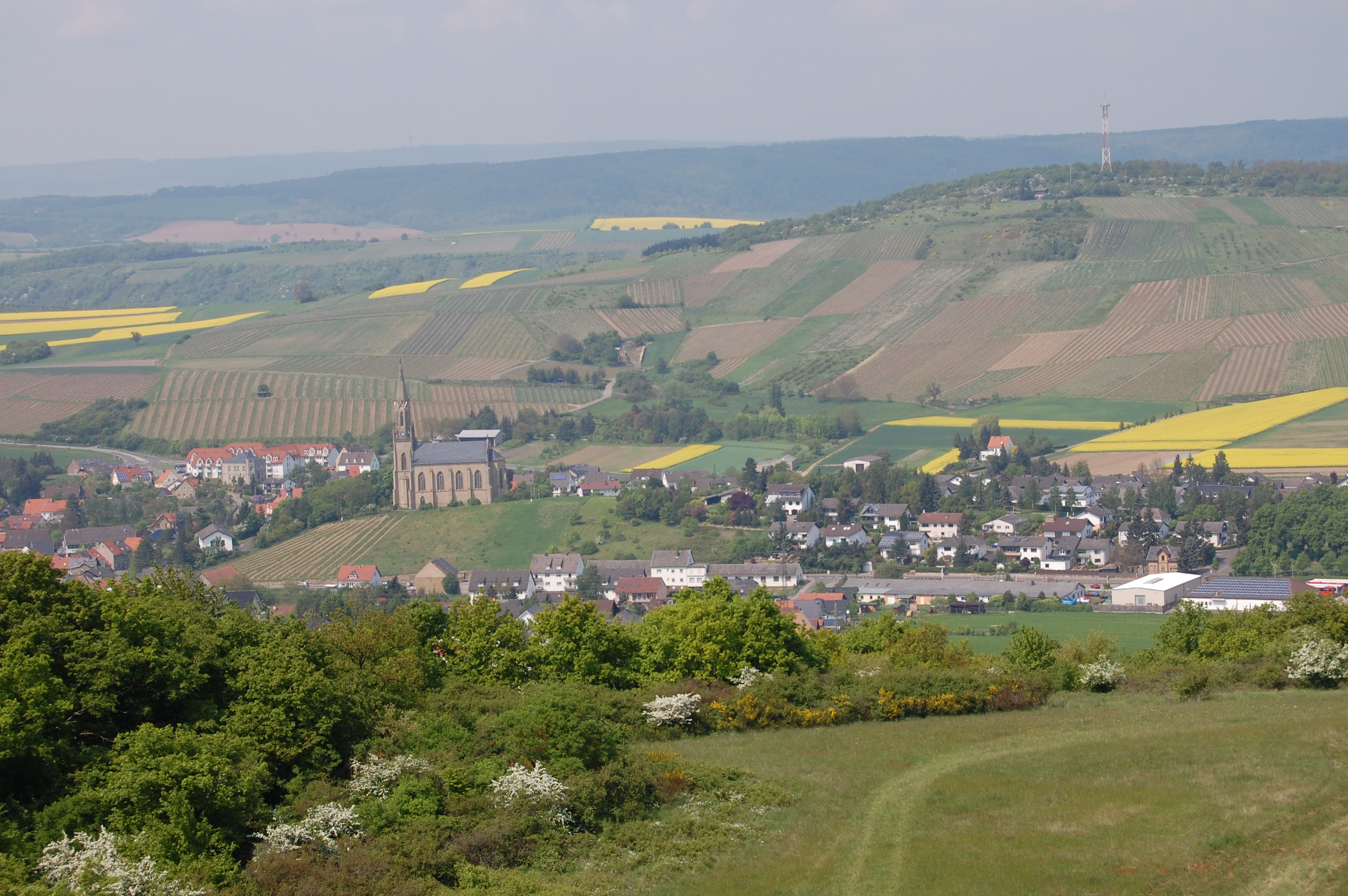 Waldböckleheim near the Nahe-valley, Germany.